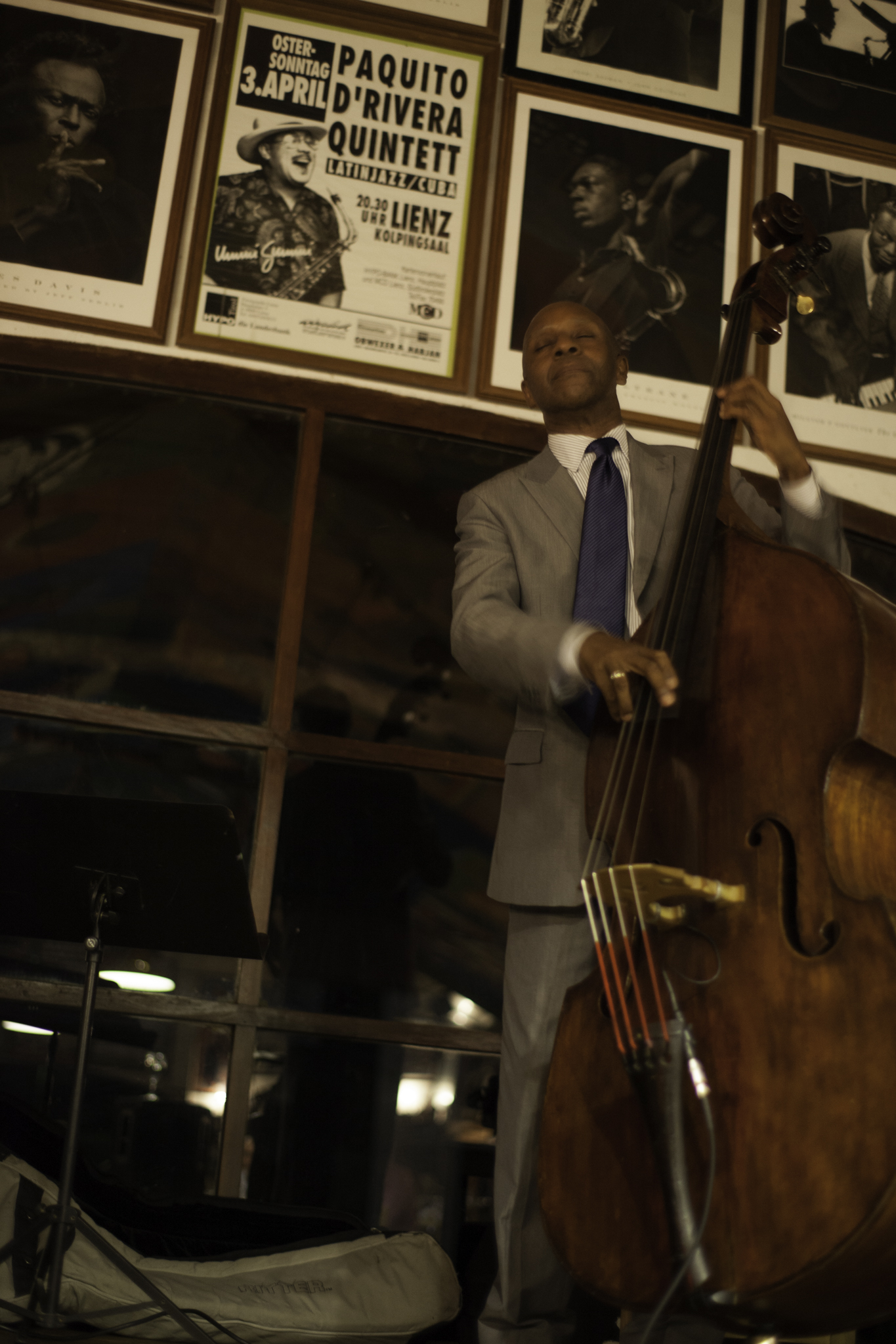 Reeves in 2013